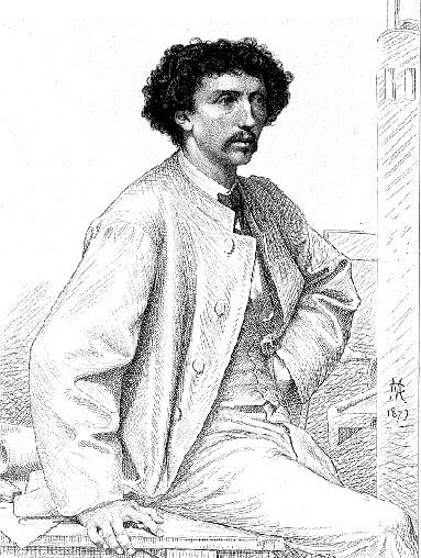 Charles Garnier in 1868 (lithograph after a painting by Paul Baudry)